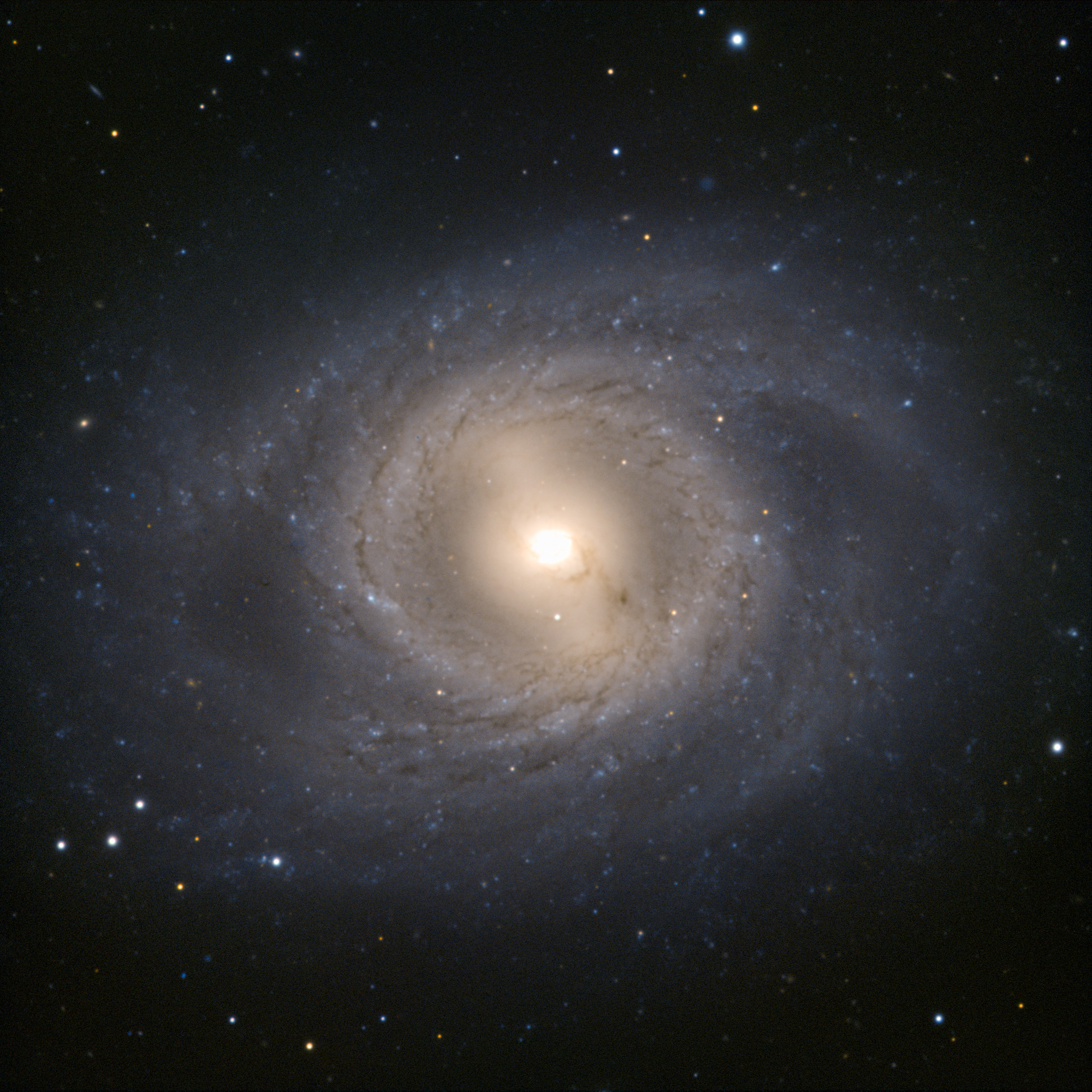 The Very Large Telescope has captured another member of the Leo I group of galaxies, in the constellation of Leo (The Lion). The galaxy Messier 95 stands boldly face-on, offering an ideal view of its spiral structure. The spiral arms form an almost perfect circle around the galactic centre before they spread out, creating a mane-like effect of which any lion would be proud. Another, perhaps even more striking, feature of Messier 95 is its blazing golden core. It contains a nuclear star-forming ring, almost 2000 light-years across, where a large proportion of the galaxy’s star formation takes place. This phenomenon occurs mostly in barred spiral galaxies such as Messier 95 and our home, the Milky Way. In the Leo I group, Messier 95 is outshone by its brother Messier 96 (see potw1143). Messier 96 is in fact the brightest member of the group and — as “leader of the pride” — also gives Leo I its alternative name of the M 96 group. Nevertheless, Messier 95 also makes for a spectacular image.